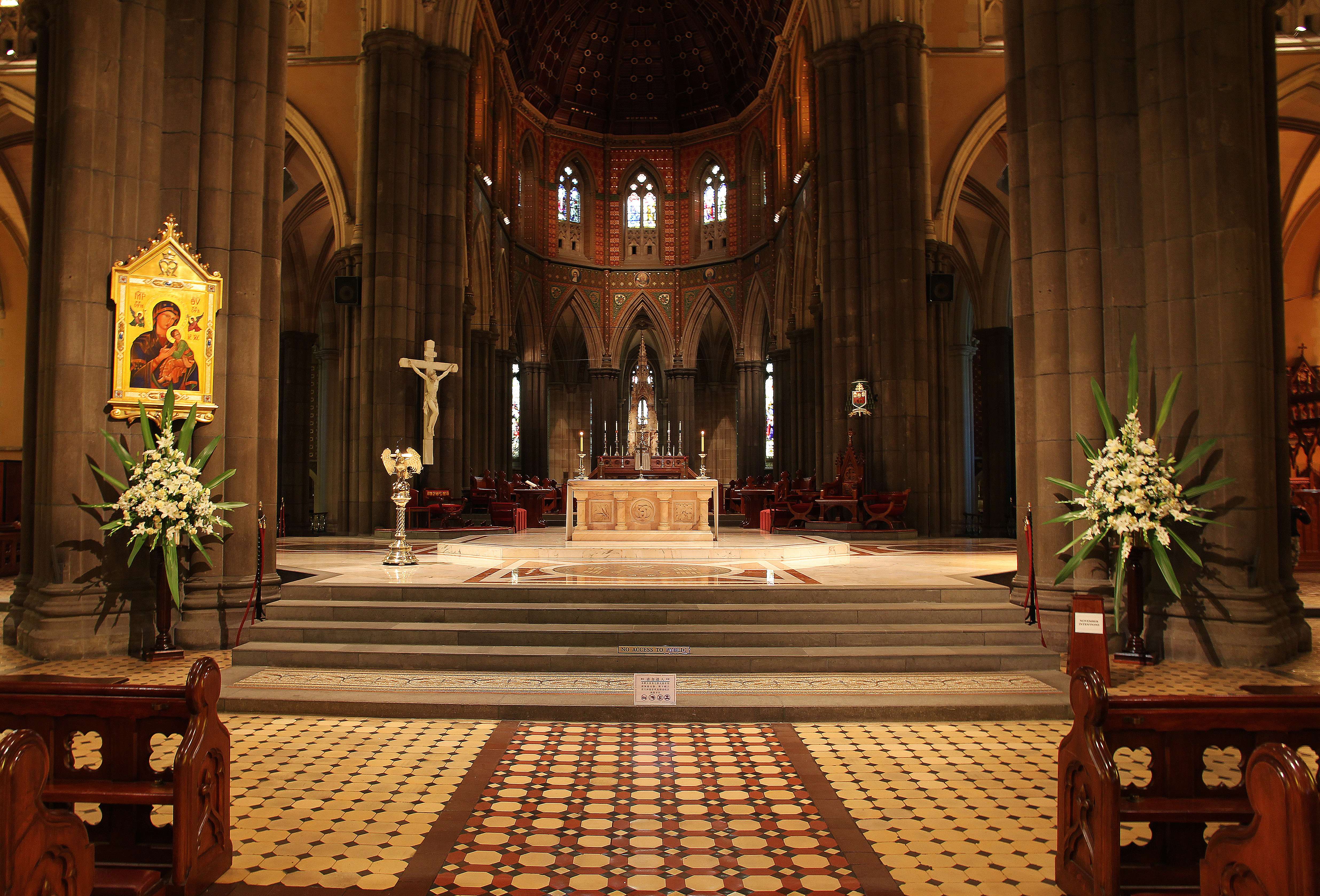 Melbourne St Patrick's Cathedral Interior